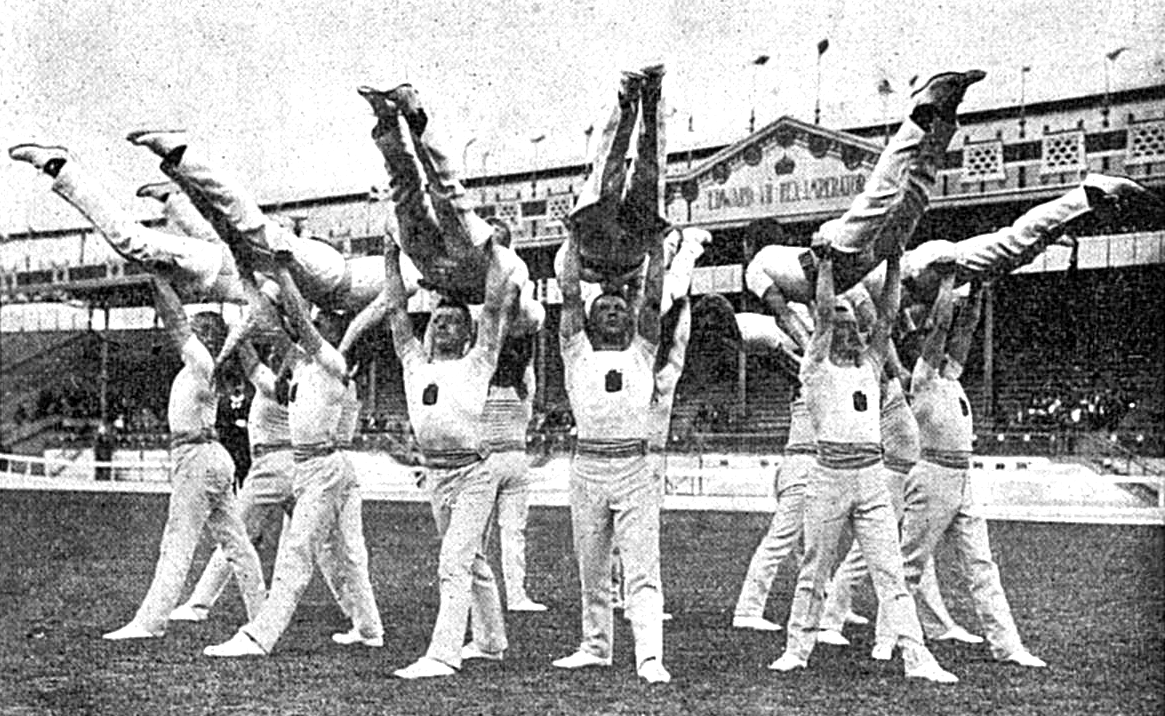 Gymnastics at the 1908 Summer Olympics, men's team event. Finland's team performing. White City Stadium, London. 15 July 1908.